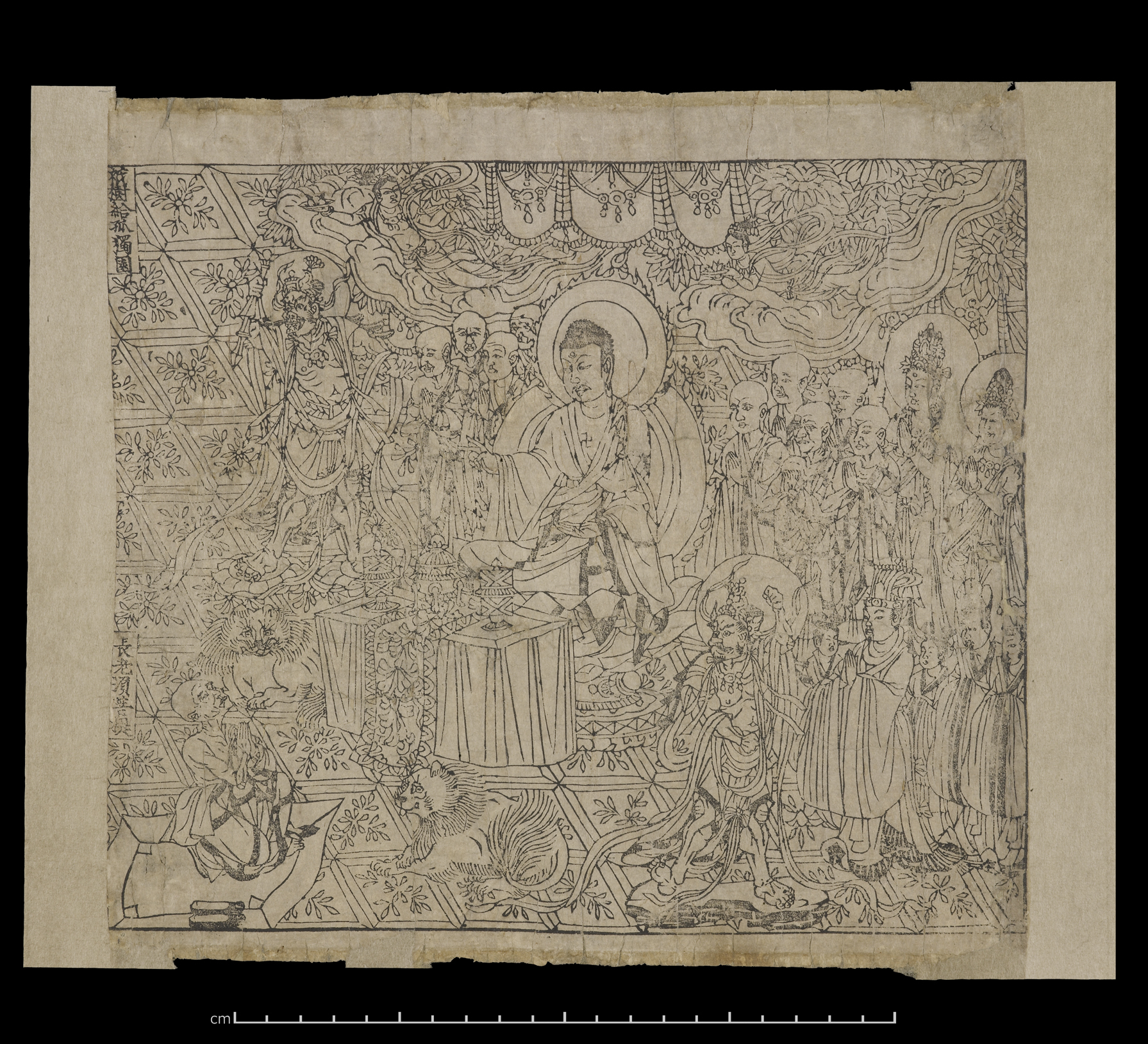 Frontispiece of a printed dated copy of the Diamond Sutra. Ink on paper: woodblock print. Or.8210/P.2